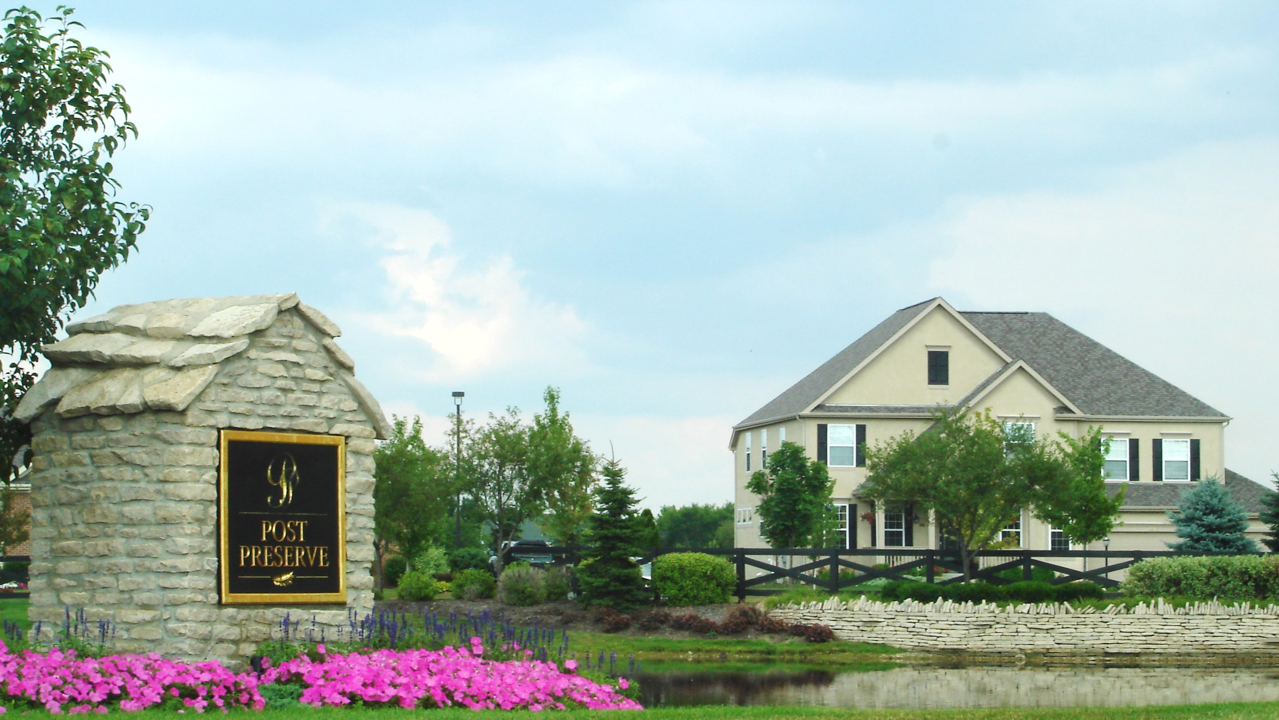 Post Reserve in Dublin